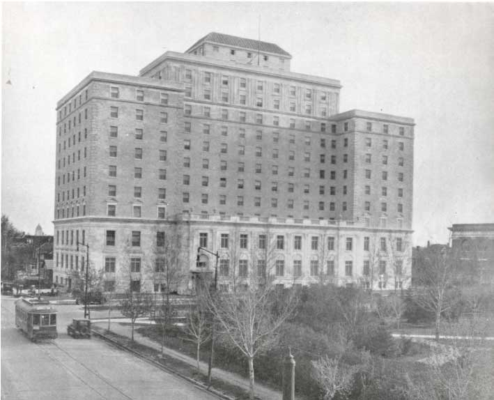 Hotel Saskatchewan, Regina, Saskatchewan, Canada.